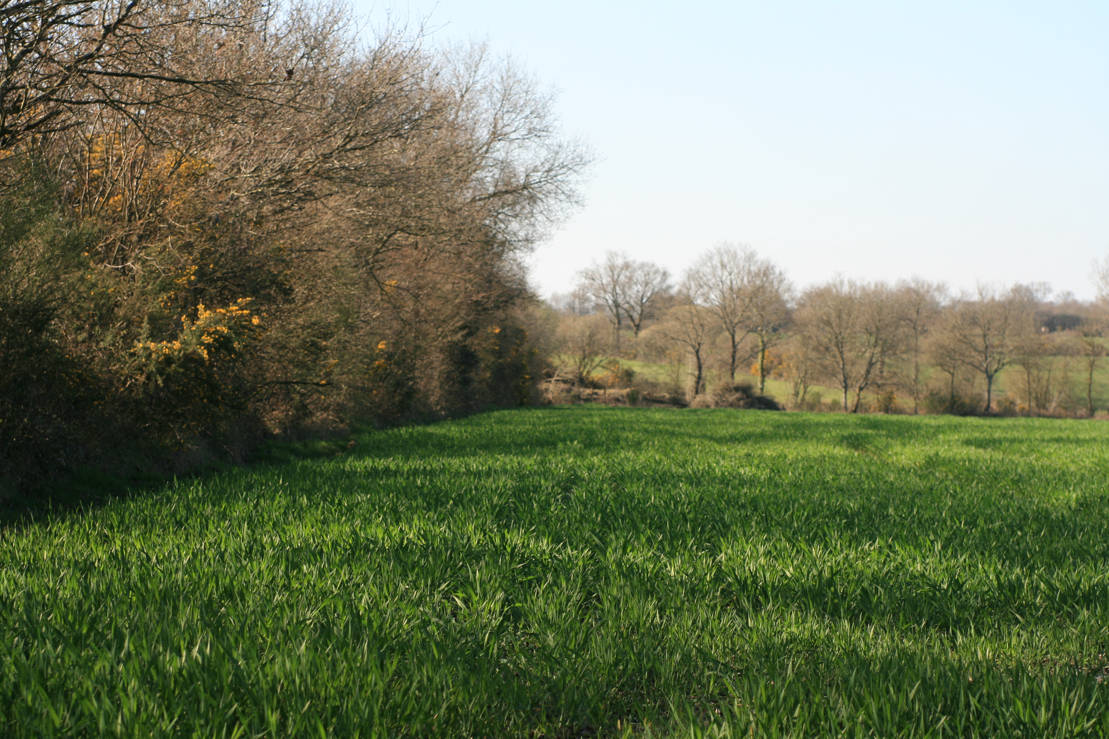 Bocage in Savenay, Loire-Atlantique, France